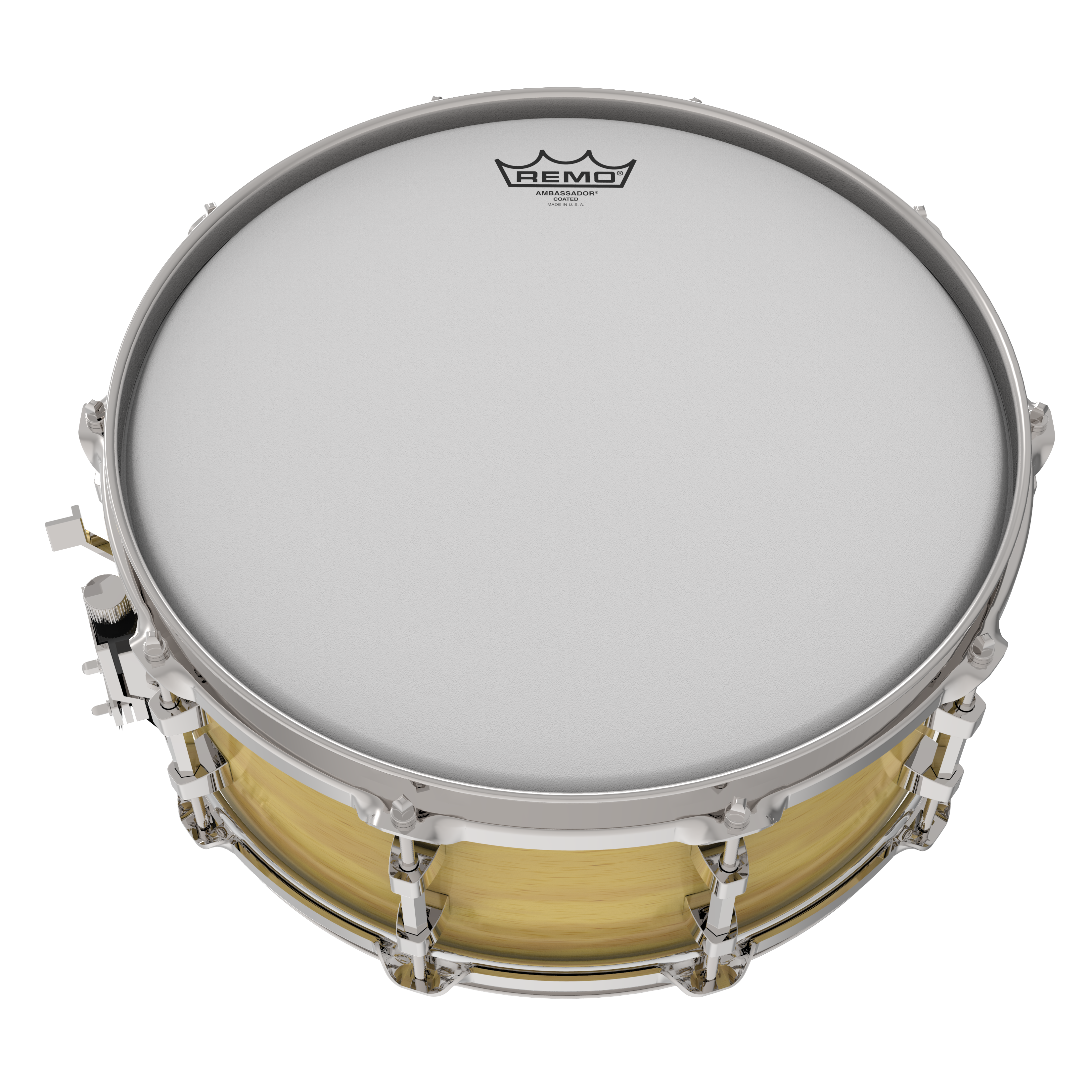 Drumhead with Coating, known as a Coated drumhead, fitted on a Snare drumset drum.